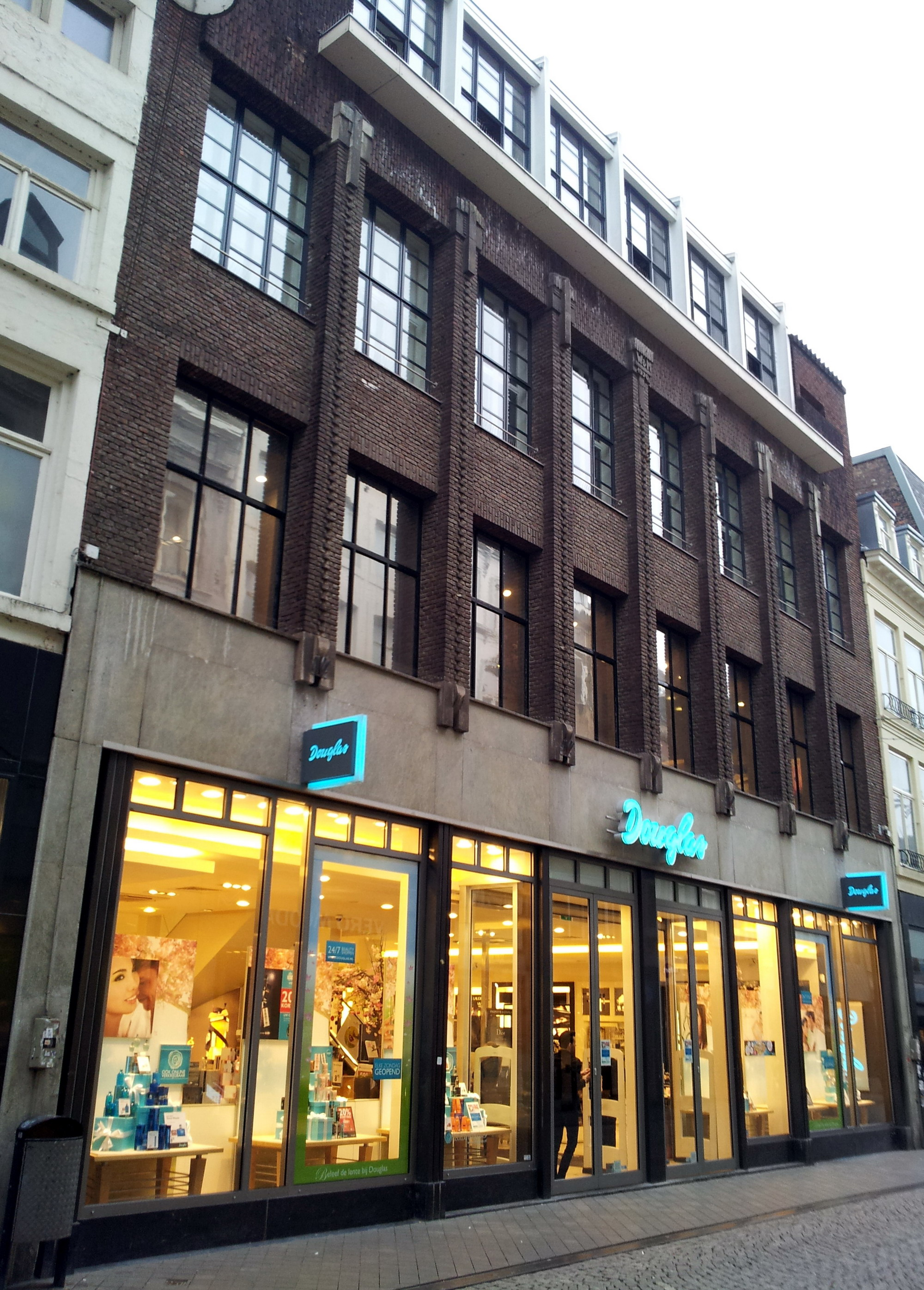 Maastricht, the Netherlands. View of a 1930s shop front in Grote Staat, one the town's main shopping streets in the old centre.